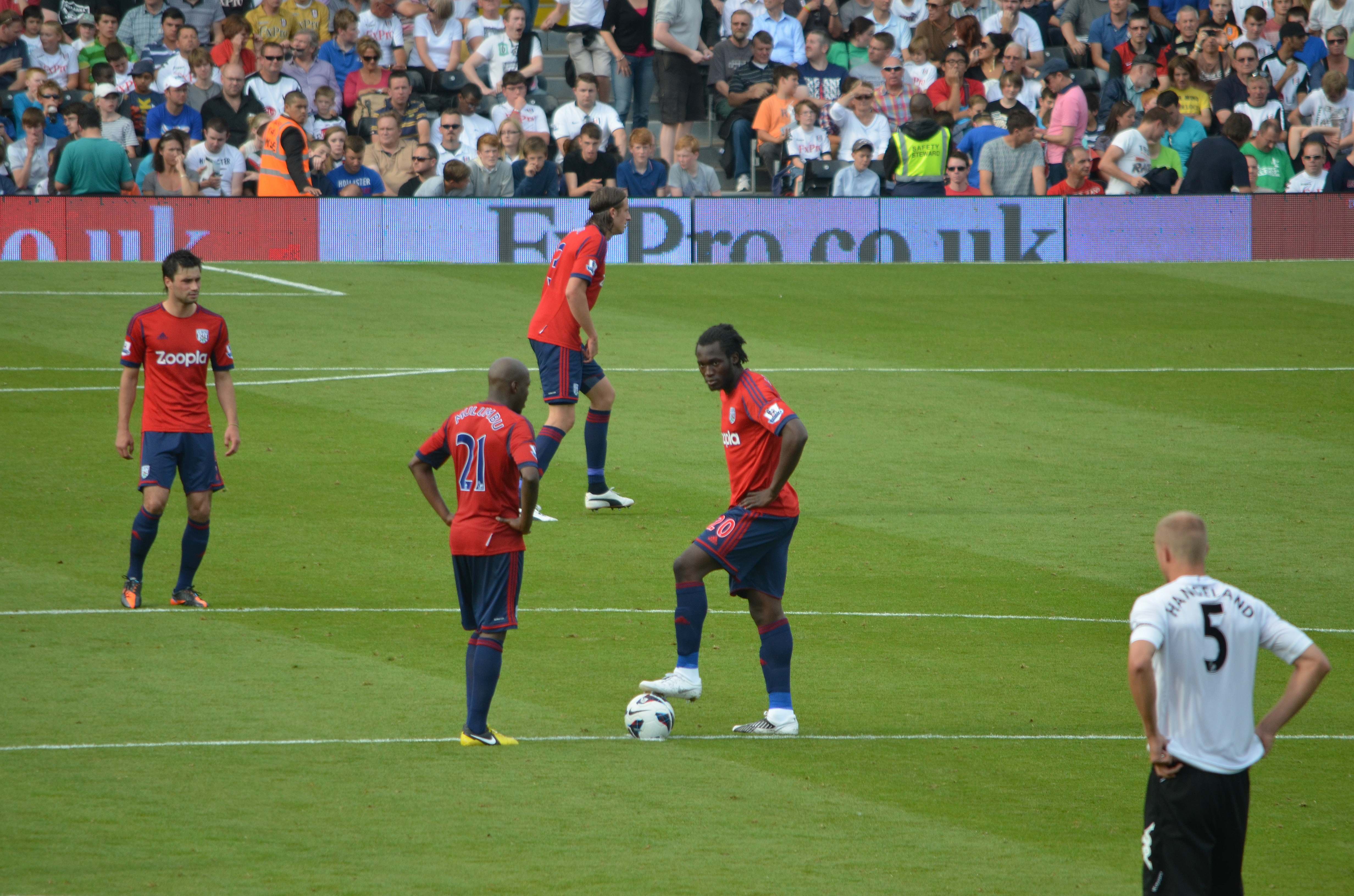 WBA at start of second half